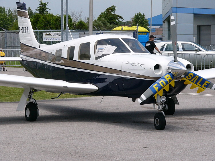 1999 model Piper PA-32R-301 Saratoga II TC.